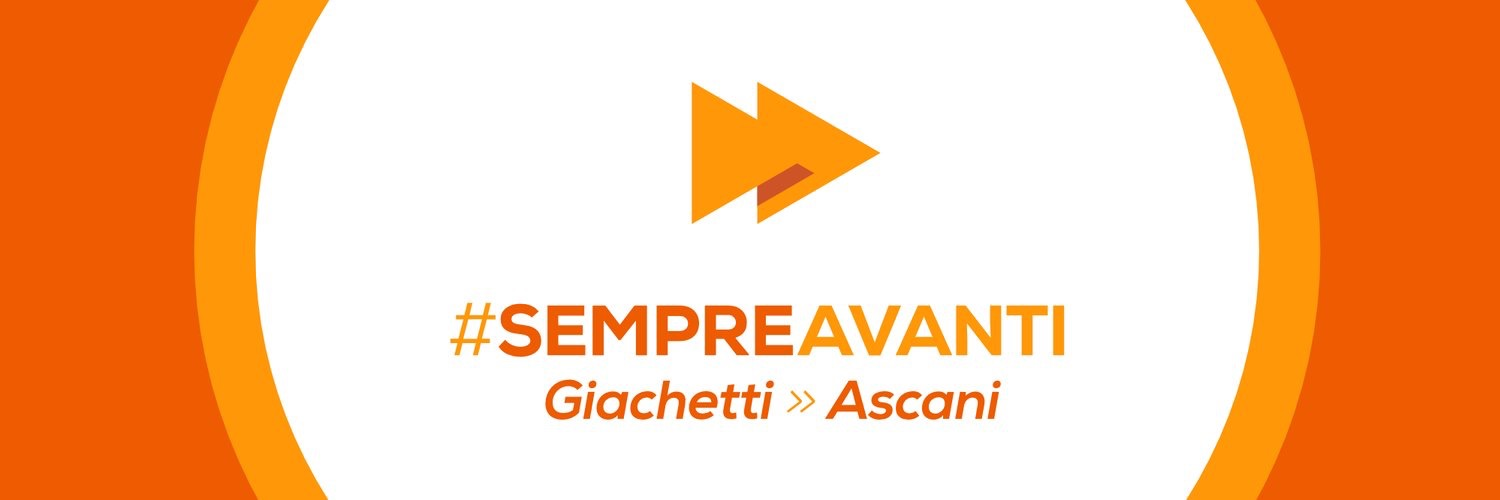 Logo of Roberto Giachetti and Anna Ascani